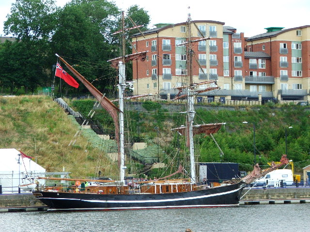 Eye of the Wind IMO Number: 5299864 MMSI Number: 219011351 Callsign: OYJG2 Length: 40 m Beam: 6 m